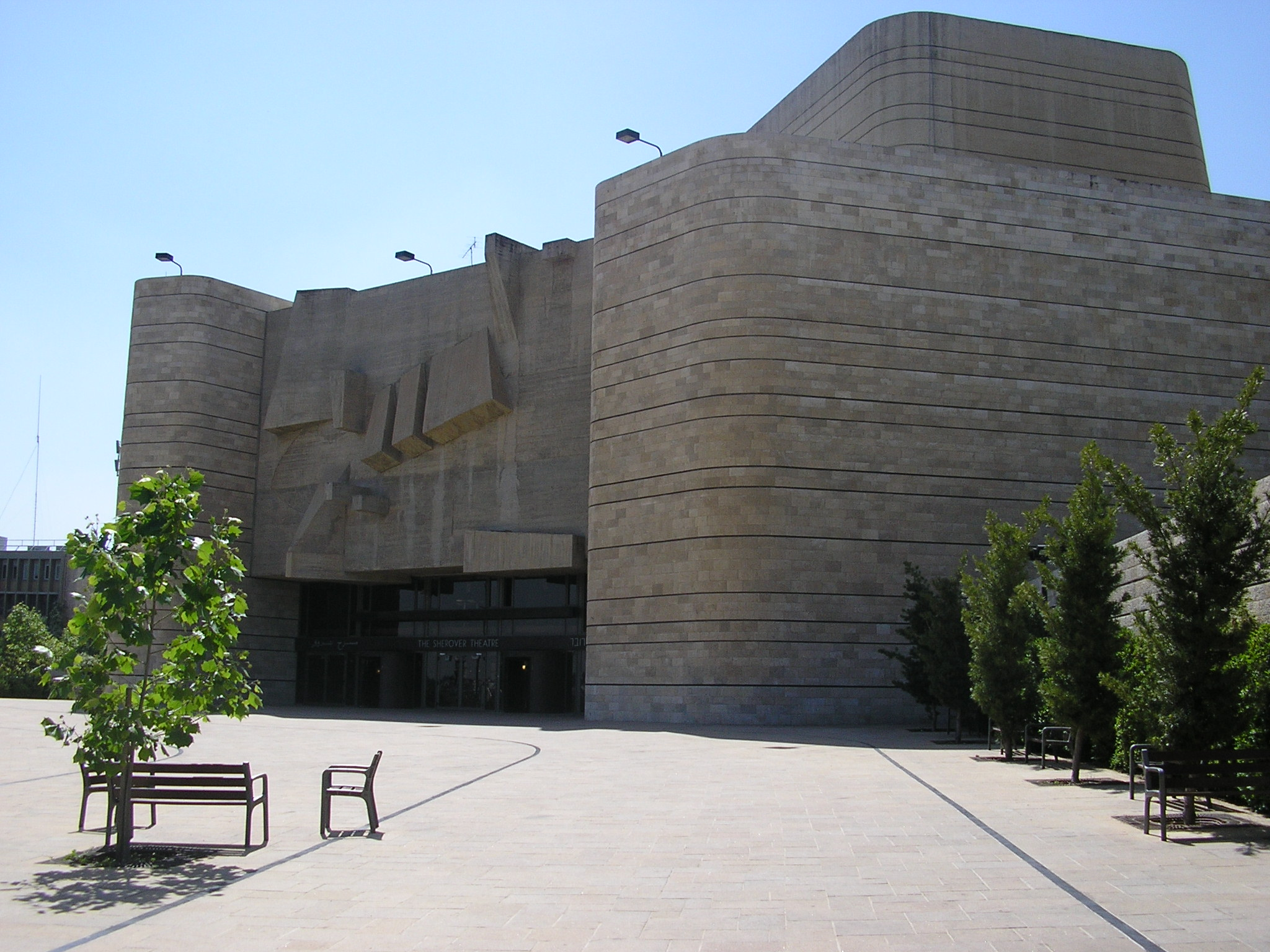 Jerusalem theatre in Talbiya